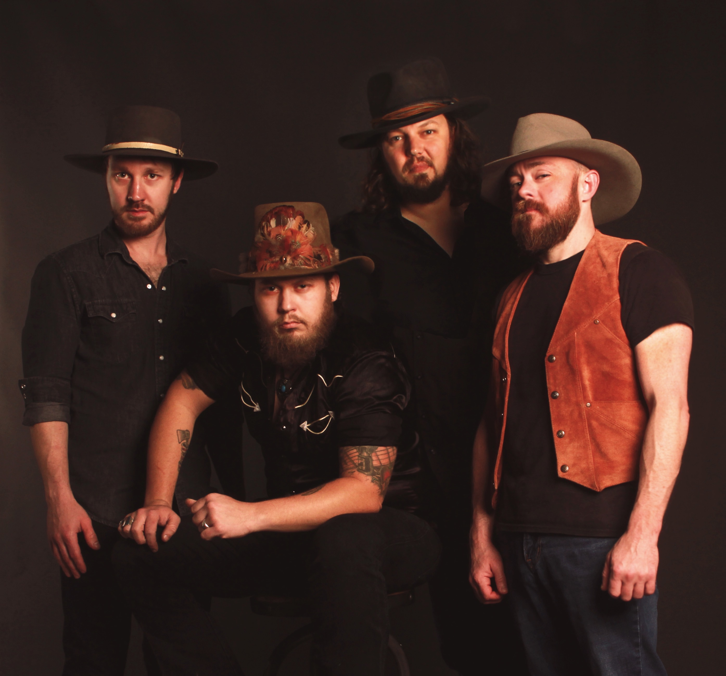 Wes Bayliss, Rowdy Cope, Johnny Stanton, and Isaac Senty